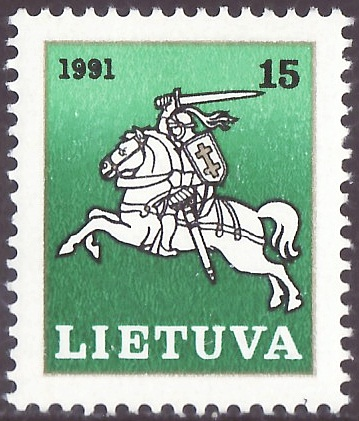 Stamp of Lithuania; 1991; definitive stamp of the issue "Vytis" ("White Knight; Lithuanian Rider"); golden frame for the stamp picture Stamp: Michel: No. 473 (LT); Yvert & Tellier: No. 405 (LT); AFA: No. 473 LT); Reikfil: No. 17 (481); PZ No. 17 Color: green to blueish green in golden frame with black Watermark: none Nominal value: 15 (Kopekų) Postage validity: from 15 March 1991 until 30 September 1992 date QS:P,+1991-00-00T00:00:00Z/8,P580,+1991-03-15T00:00:00Z/11,P582,+1992-09-30T00:00:00Z/11 Stamp picture size: 21.5 x 25.5 mm